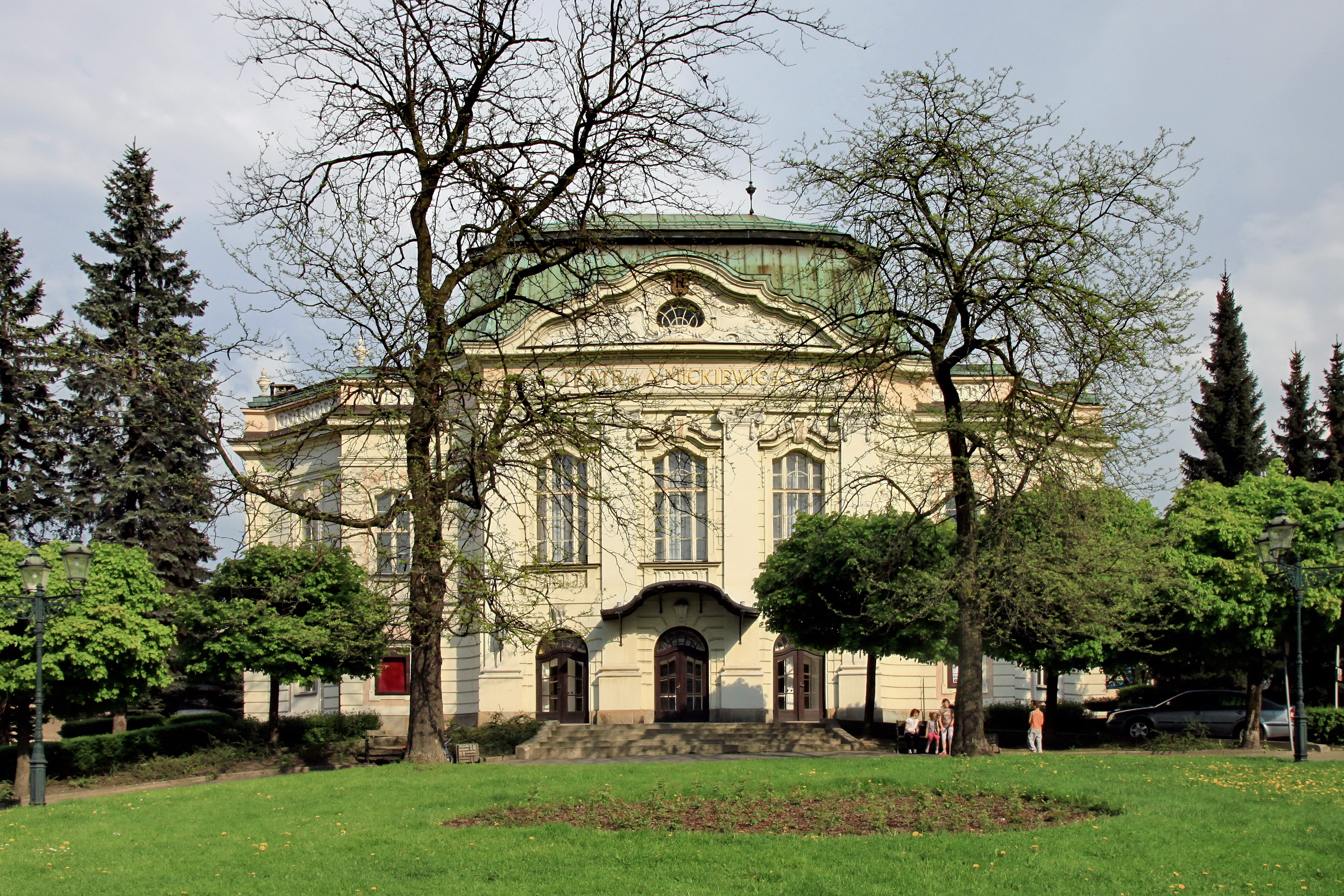 Cieszyn, former German Theatre, now Adam Mickiewicz Theatre, build in 1910